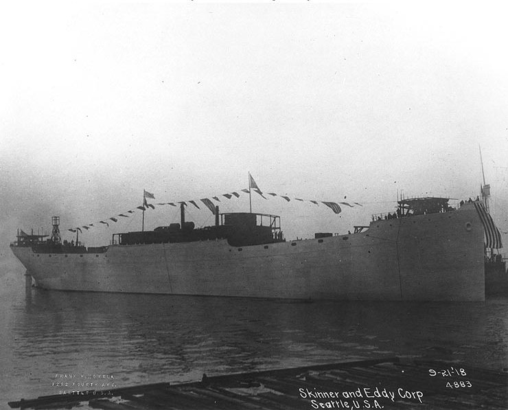 SS West Elcasco shortly after launch and before the completion of her superstructure on 21 September 1918.